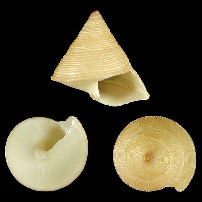 Seashell Calliostoma connyae